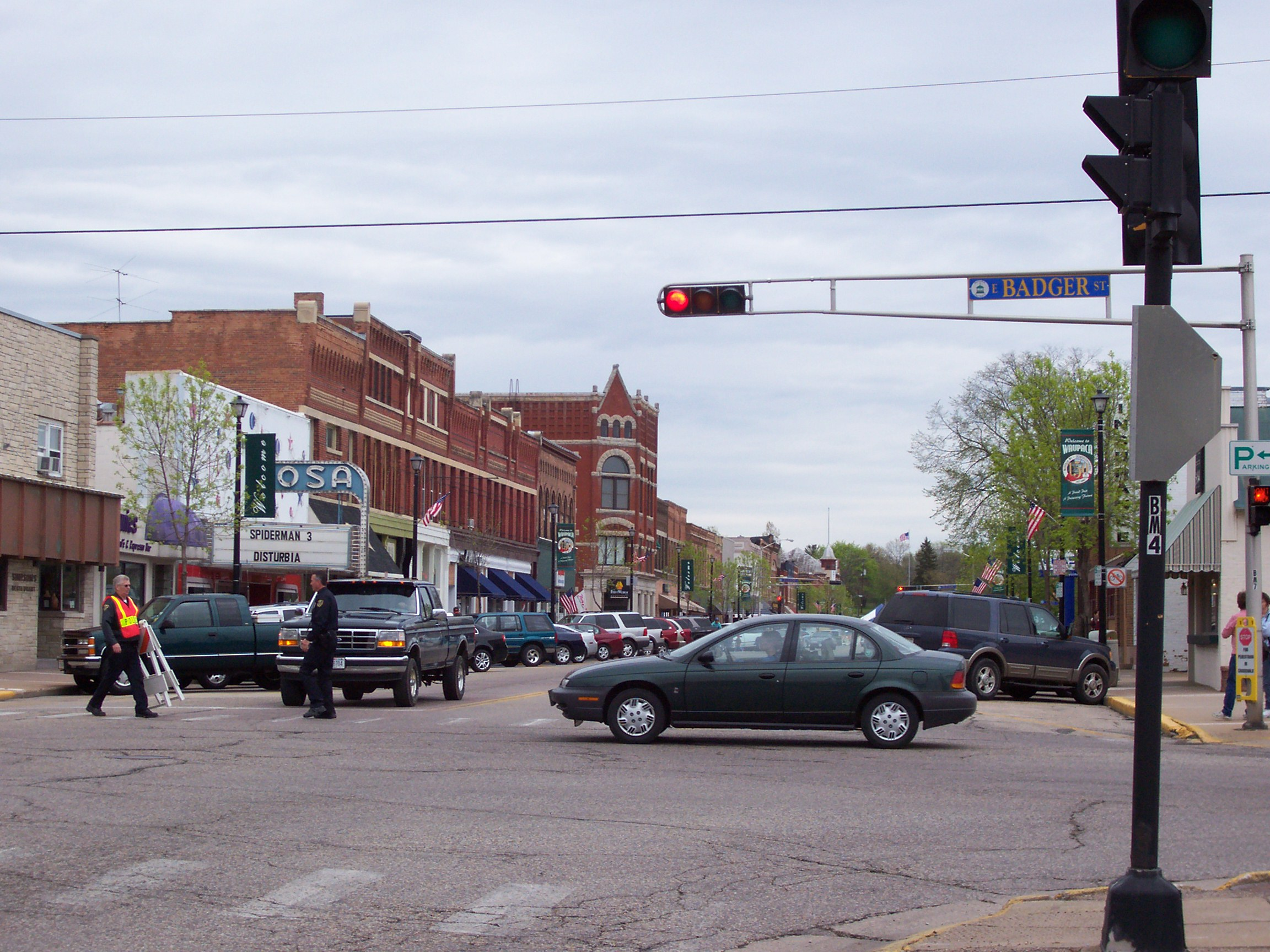 Looking north at downtown Waupaca, Wisconsin, USA during sesquicentennial celebration. I happened across the celebration by random coincidence. Police are setting up road blocks. We had just driven by speeches in auditorium from that direction.